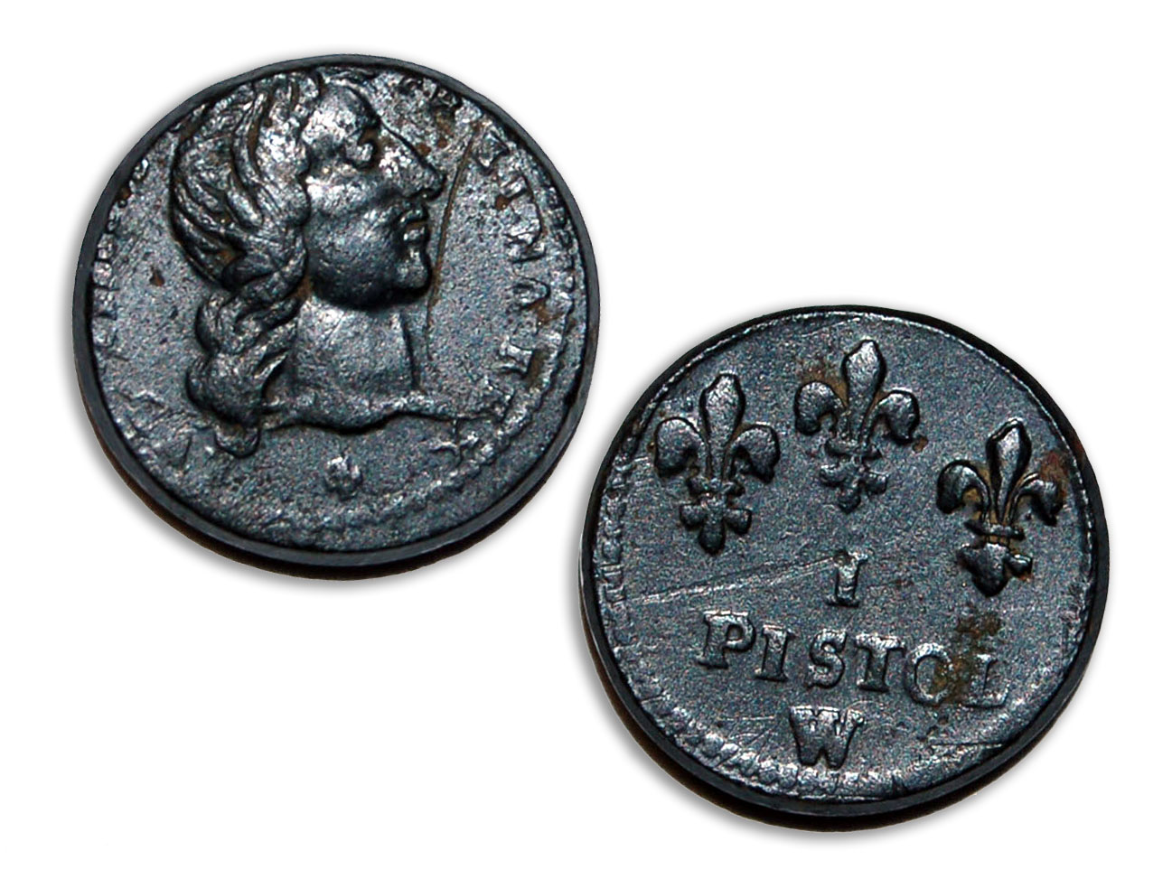 Pistole